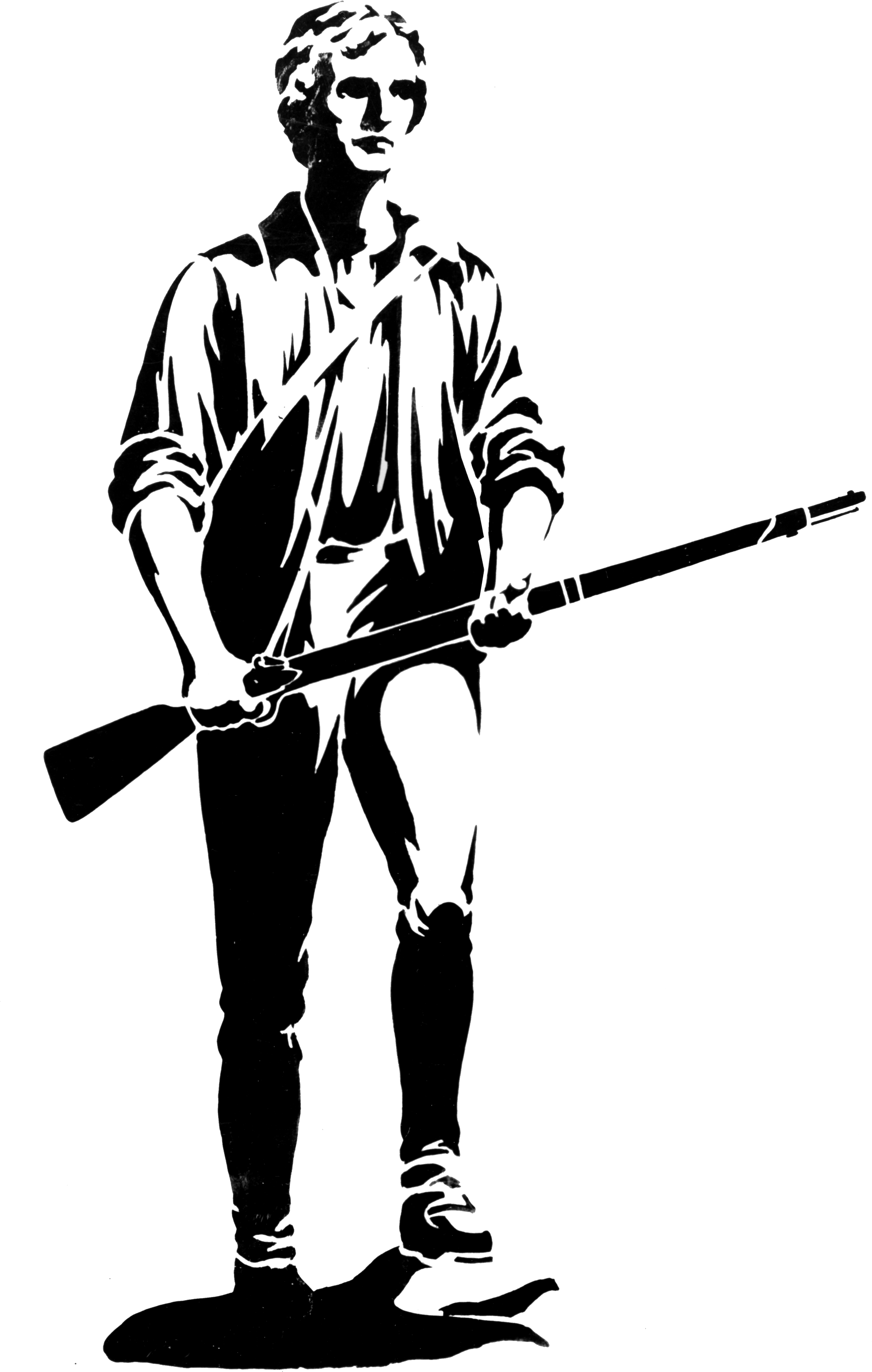 Ship's insignia of United States Navy aircraft carrier USS Lexington (CV-2). The figure is a copy of the statue of a "Minuteman" in the town of Lexington, Massachusetts (USA), to symbolize the carrier's ability to respond at a moment's notice.